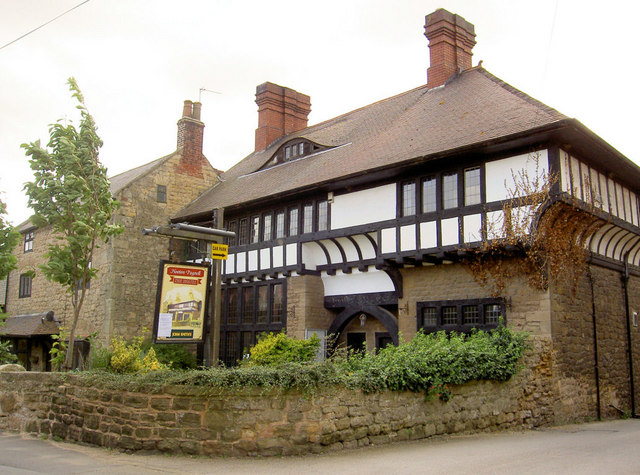 Closed! The former village club now named The Hostel had closed stickers all over it.